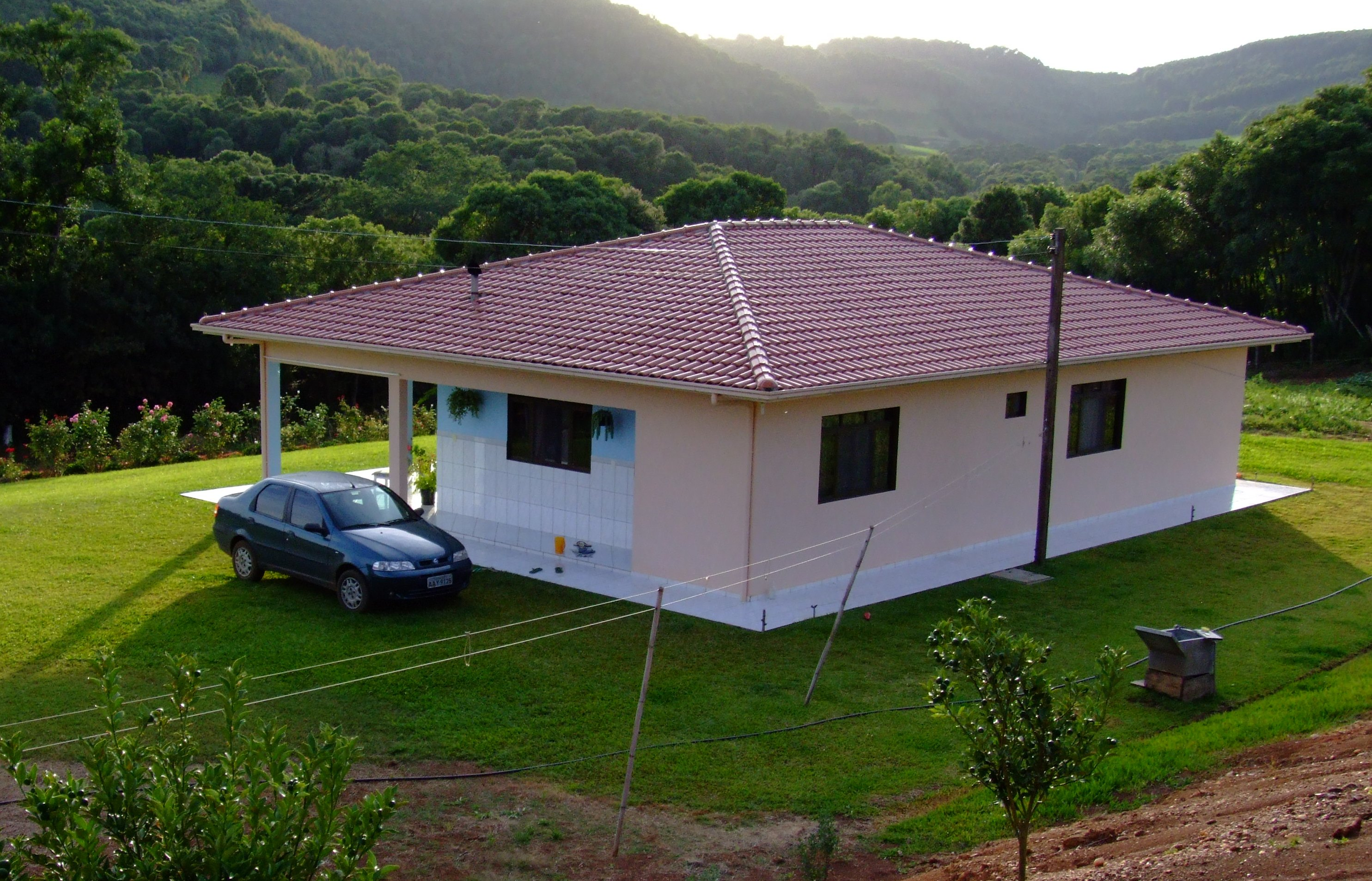 House of a poultry farmer inhabitant of Santa Catarina